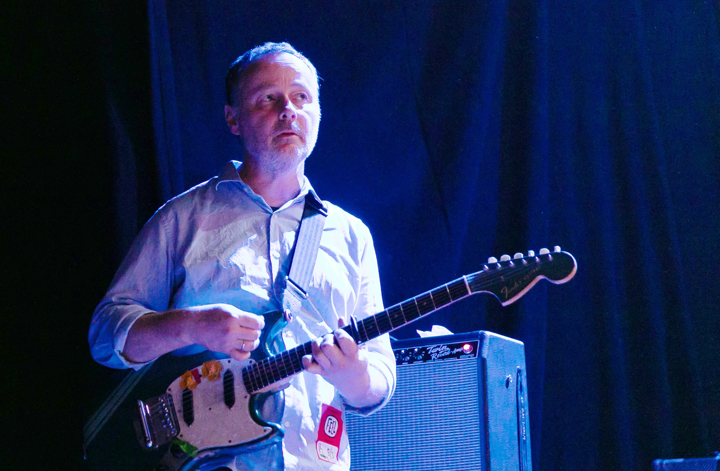 Tim Gane performing with Stereolab in Sydney 2020